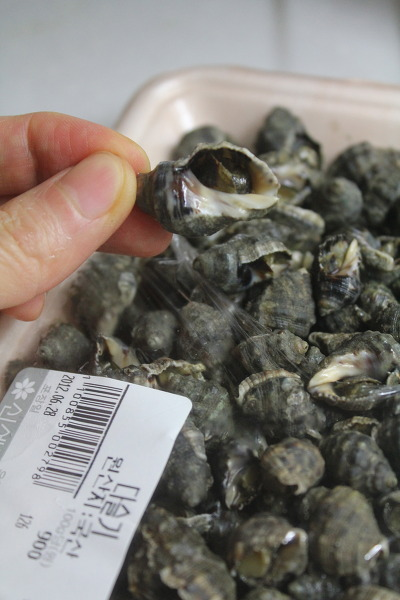 Daseulgi (freshwater snails)